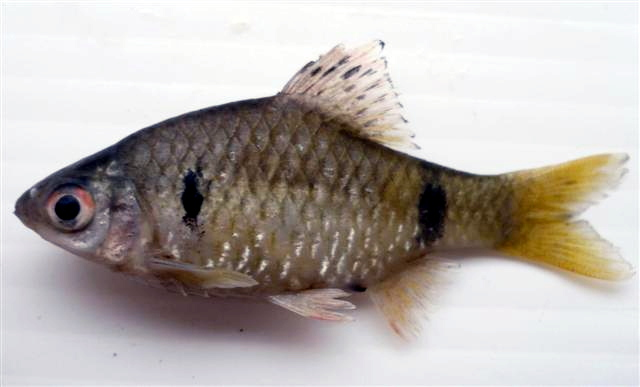 Pethia stoliczkana from Upper Moei River, Tak Province, Thailand